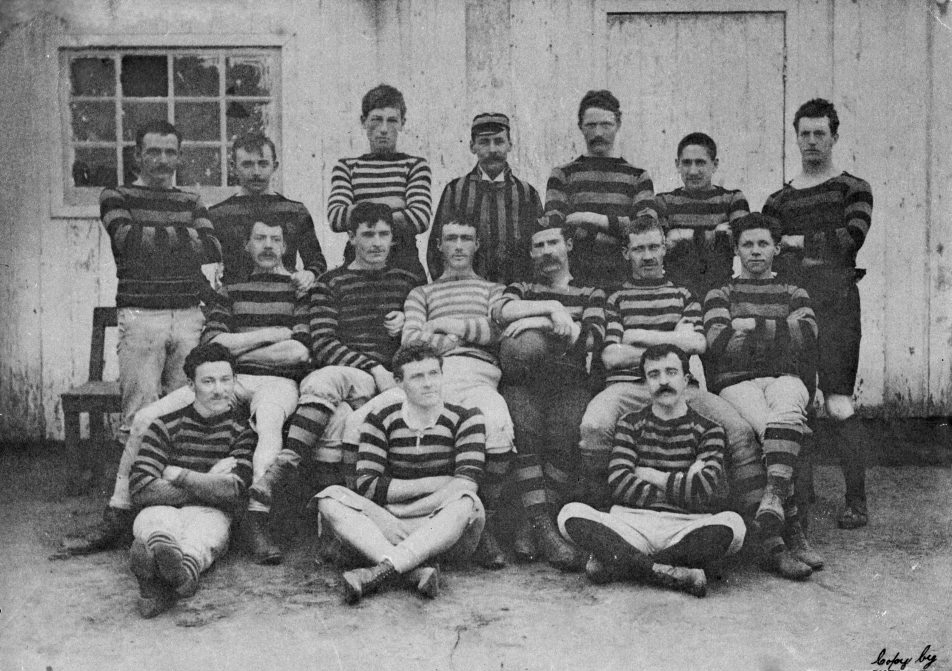 The Rosario Athletic Club rugby team of 1884, considered the oldest photo of a rugby team in Argentina. Players were C.E. Baines, W. Graham, A. Musgrove, Williamson, A. Dickensen, R.C. Baines (cap), Bolland, Geary, Hall, Hanckell, Miles, Parry, Topping, Keenan, Jones.